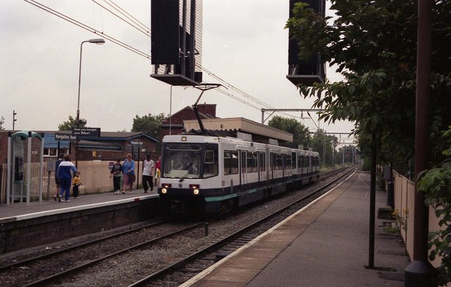 Trams at Navigation Road station, near Altrincham, Cheshire. Car no 1020 of Manchester Metrolink heads a two-car formation on a down service from Manchester to Altrincham. The method of working this station is very unusual: the left-hand track is used by trams in both directions, while the right-hand track, which is not electrified, is used for 'heavy rail' services, usually Manchester-Stockport-Altrincham-Chester